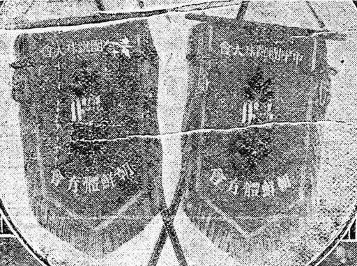 Football at the 1922 Korean National Sports Festival.